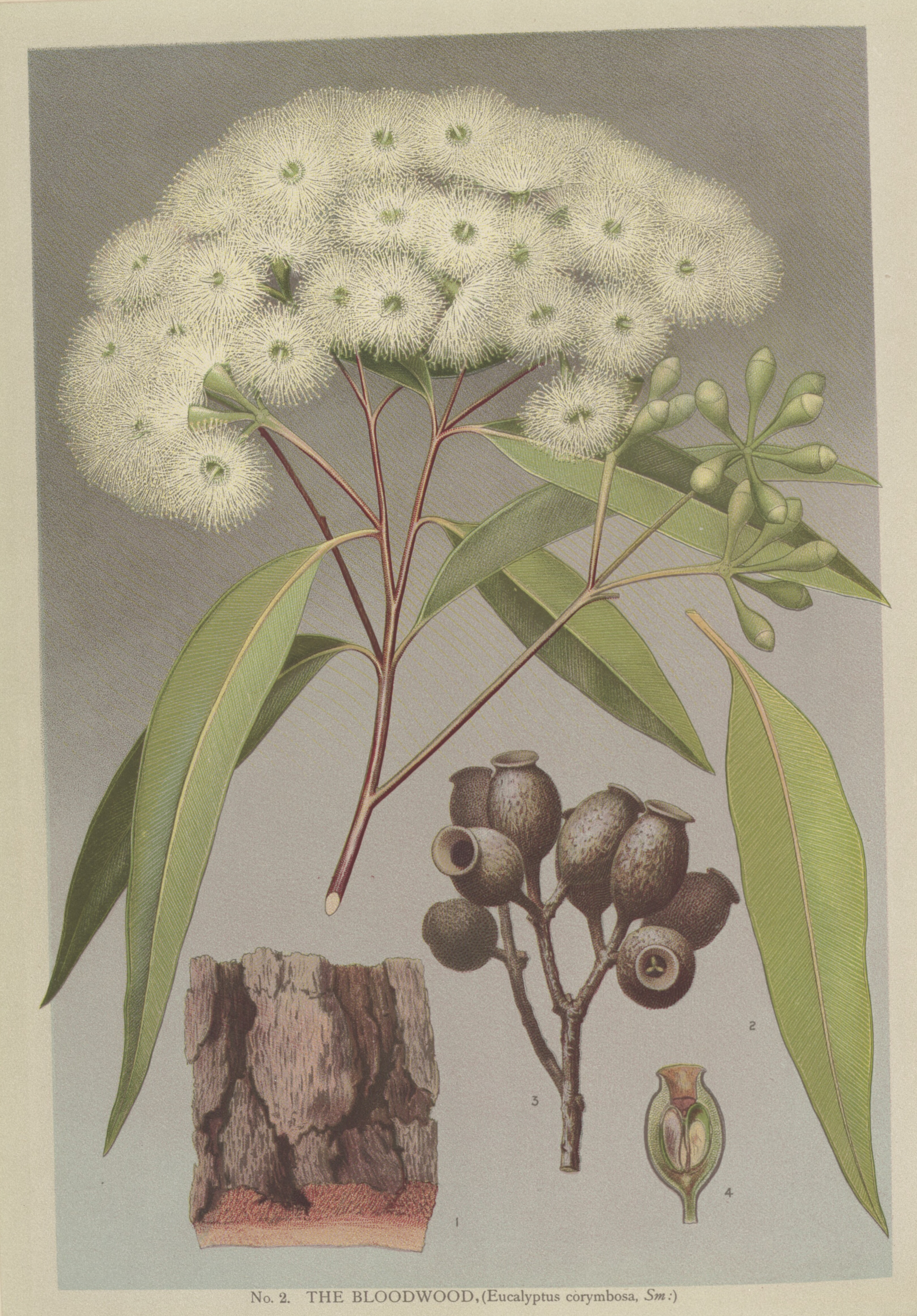 Corymbia gummifera (Red Bloodwood) From: The Flowering Plants and Ferns of New South Wales - Part 5 (1896) by J H Maiden. NSW Government Printing Office.